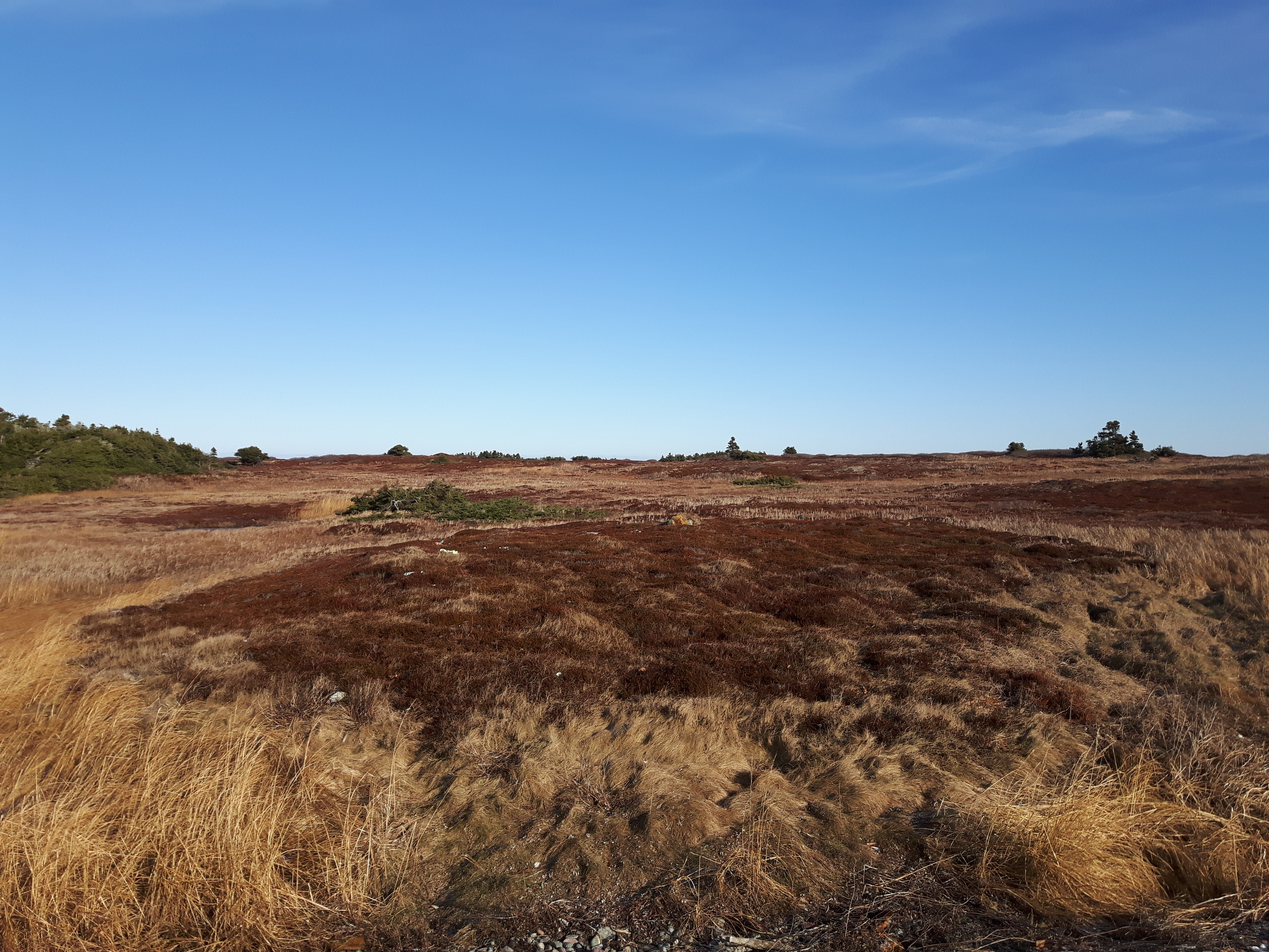 Grave Site of Le Chameau Victim's.